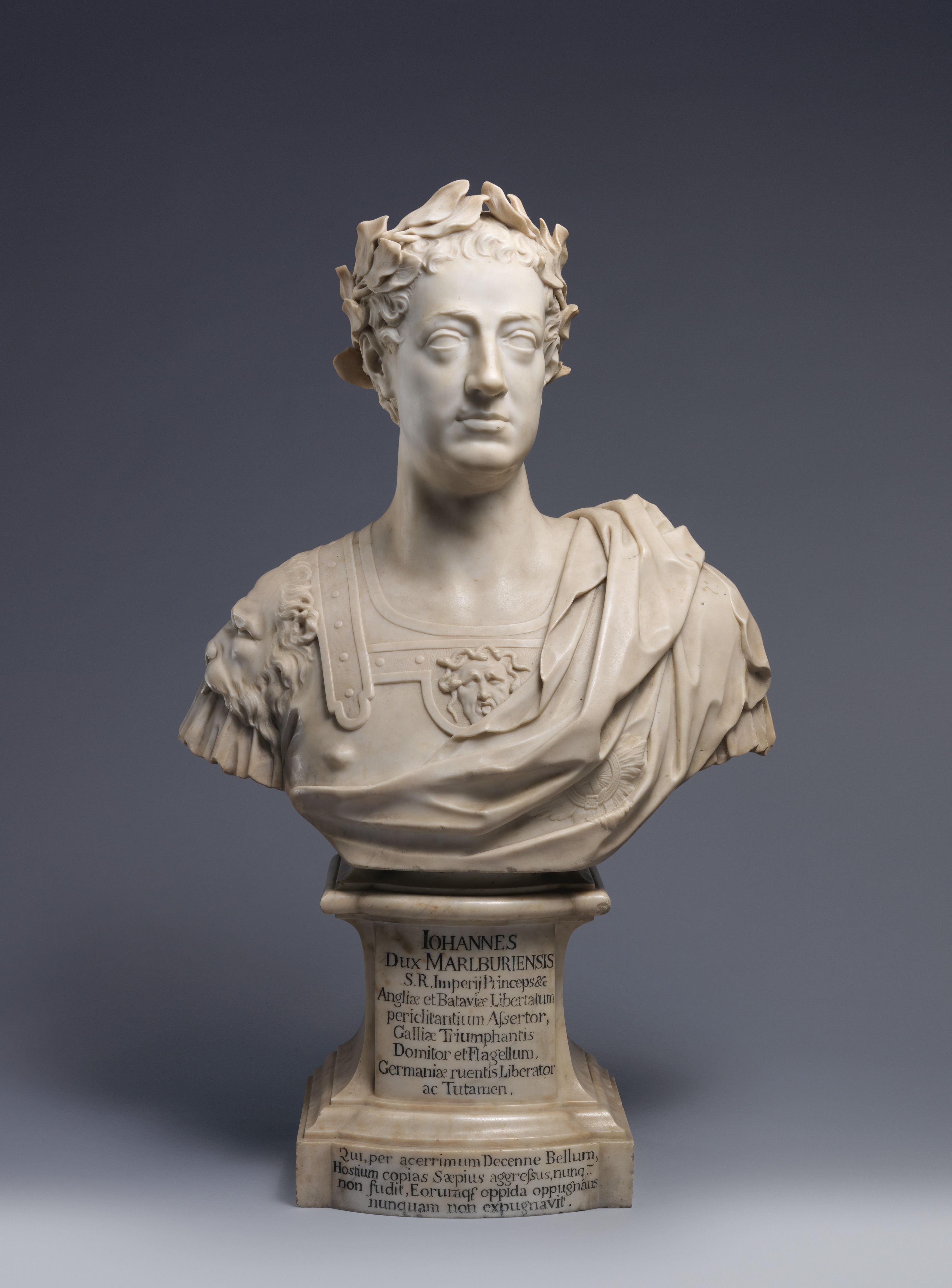 British; Bust; Sculpture